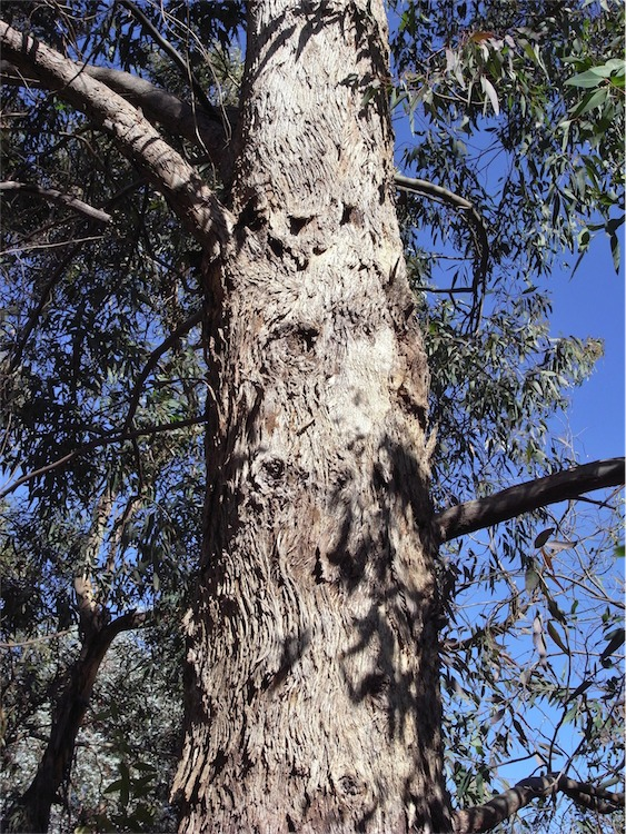 Bark of Eucalyptus rudderi in the Australian National Botanic Gardens